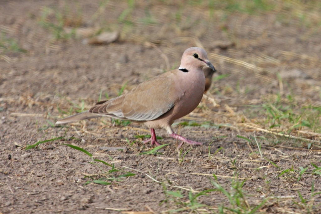 A Vinaceous Dove in Gambia.